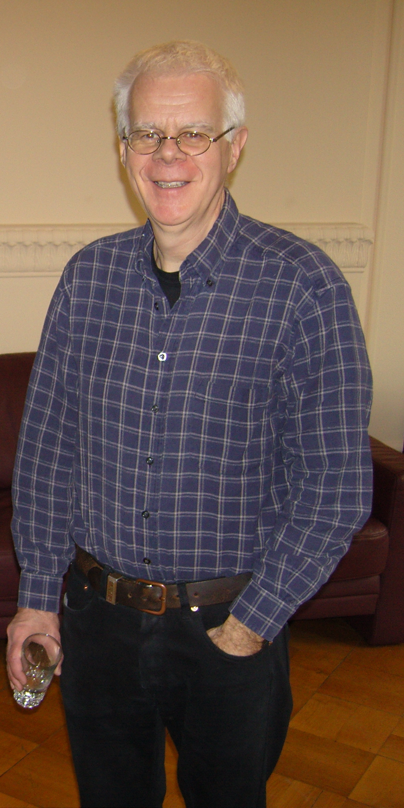 Jan Denef at the Hausdorff Research Institute for Mathematics in Bonn, Germany.